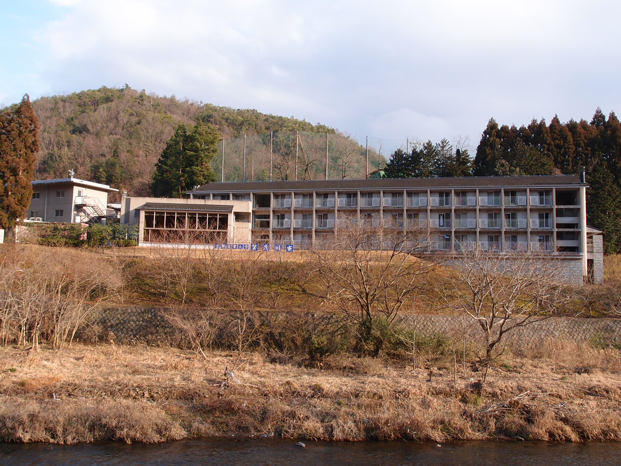 Kamogawa dormitory of Kyoto Sangyo University in Kyoto Jaoan.